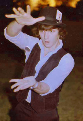 Sylvester the Jester, displaying his "Reverse Gravity" trick